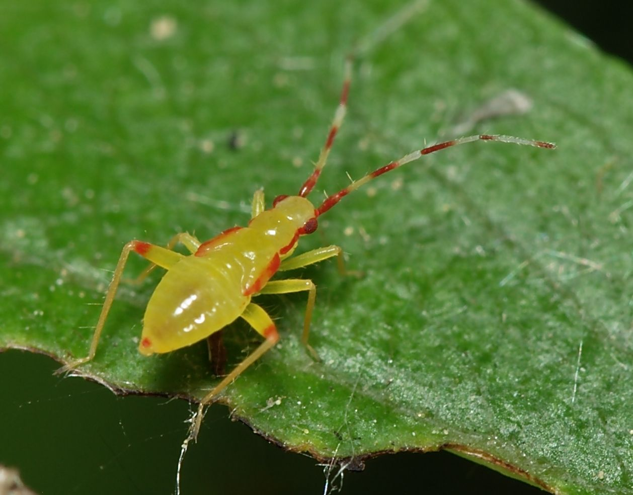 nymph of Campyloneura virgula from Cologne, Germany.